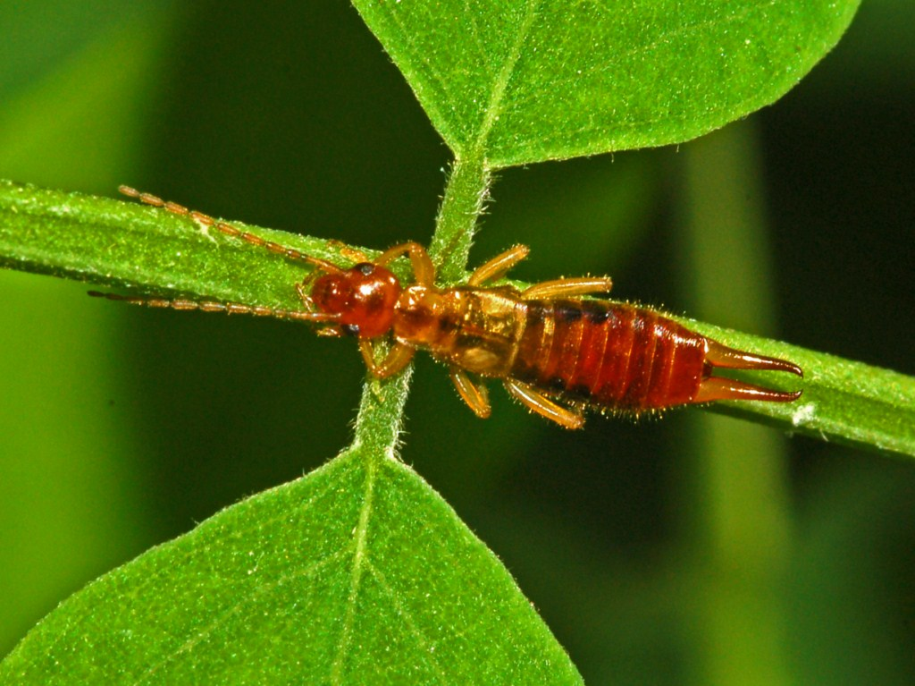 Forficulinae, female